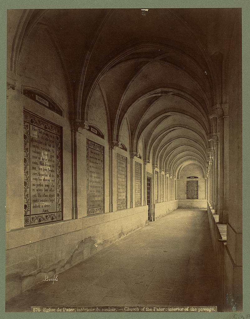 Title: Eglise du Pater, intérieur du couloir Church of the Pater: interior of the passage / / Bonfils. Abstract/medium: 1 photographic print : albumen.